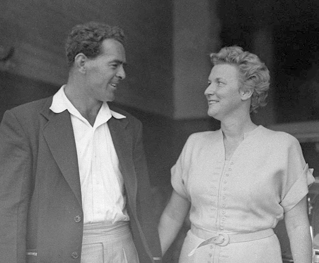 Charles Gill, home after Rugby League tour of England and France, with his wife